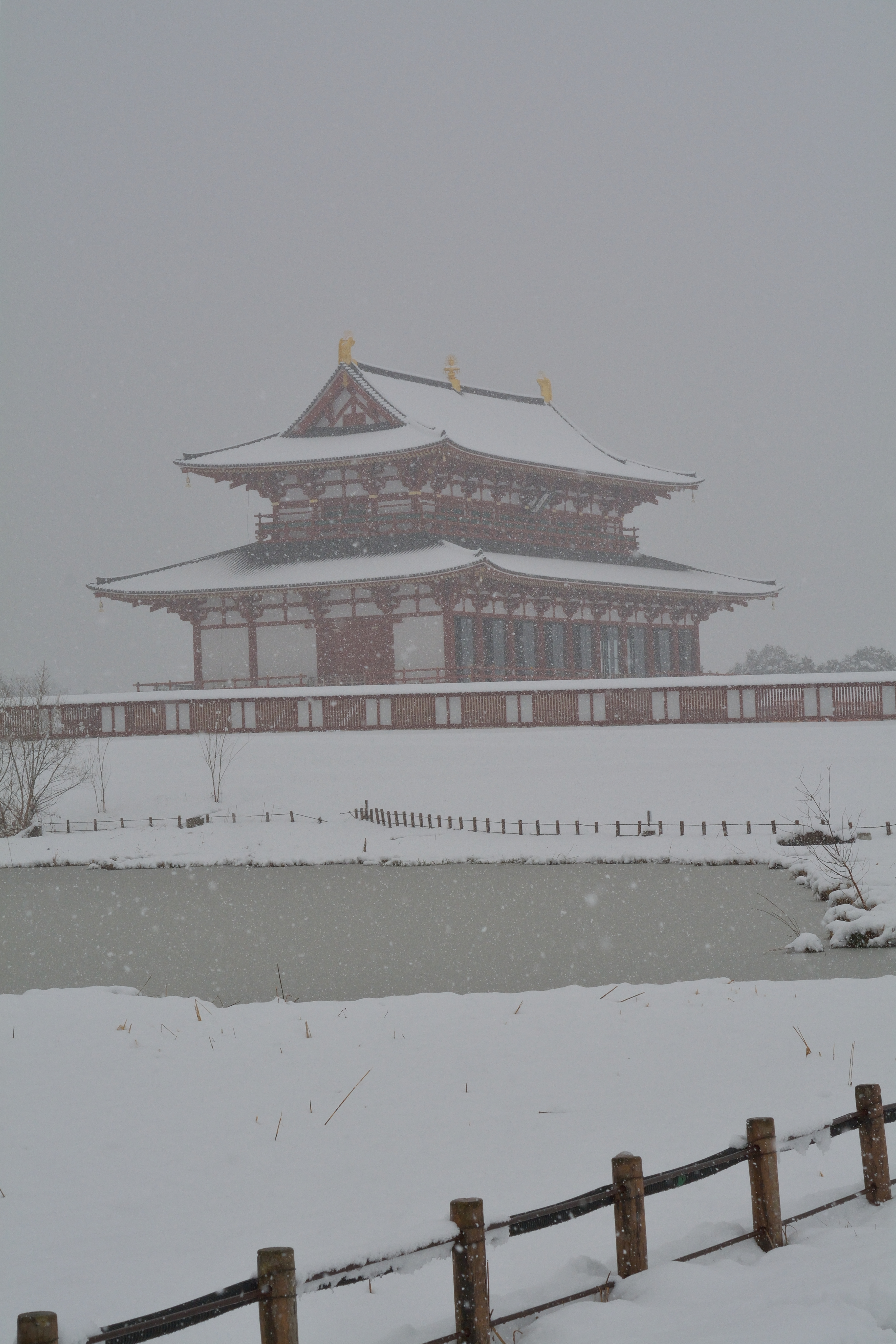 On a snowy day, the Daigokuden in the site of Heijō Palace in Nara, Japan.